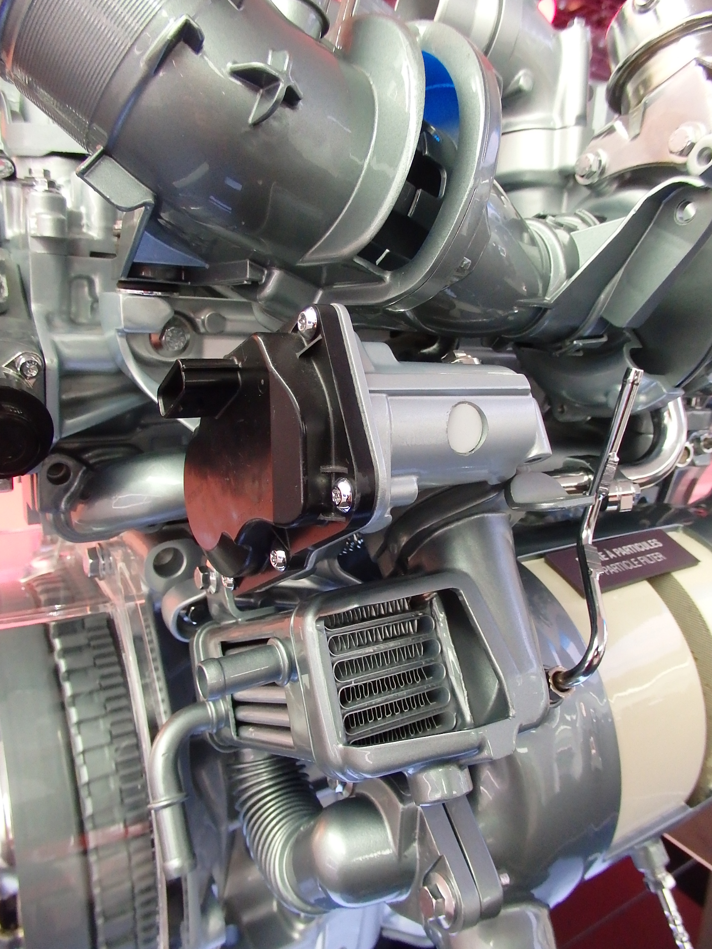 LPL-EGR system of Renault dCi series